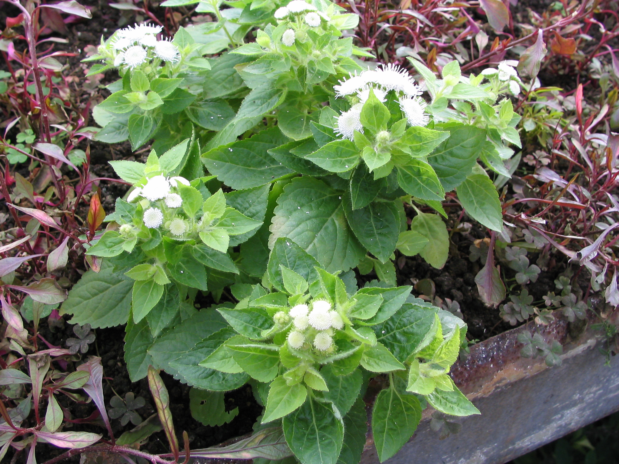 Ageratum houstonianum 'Cloud Nine White'